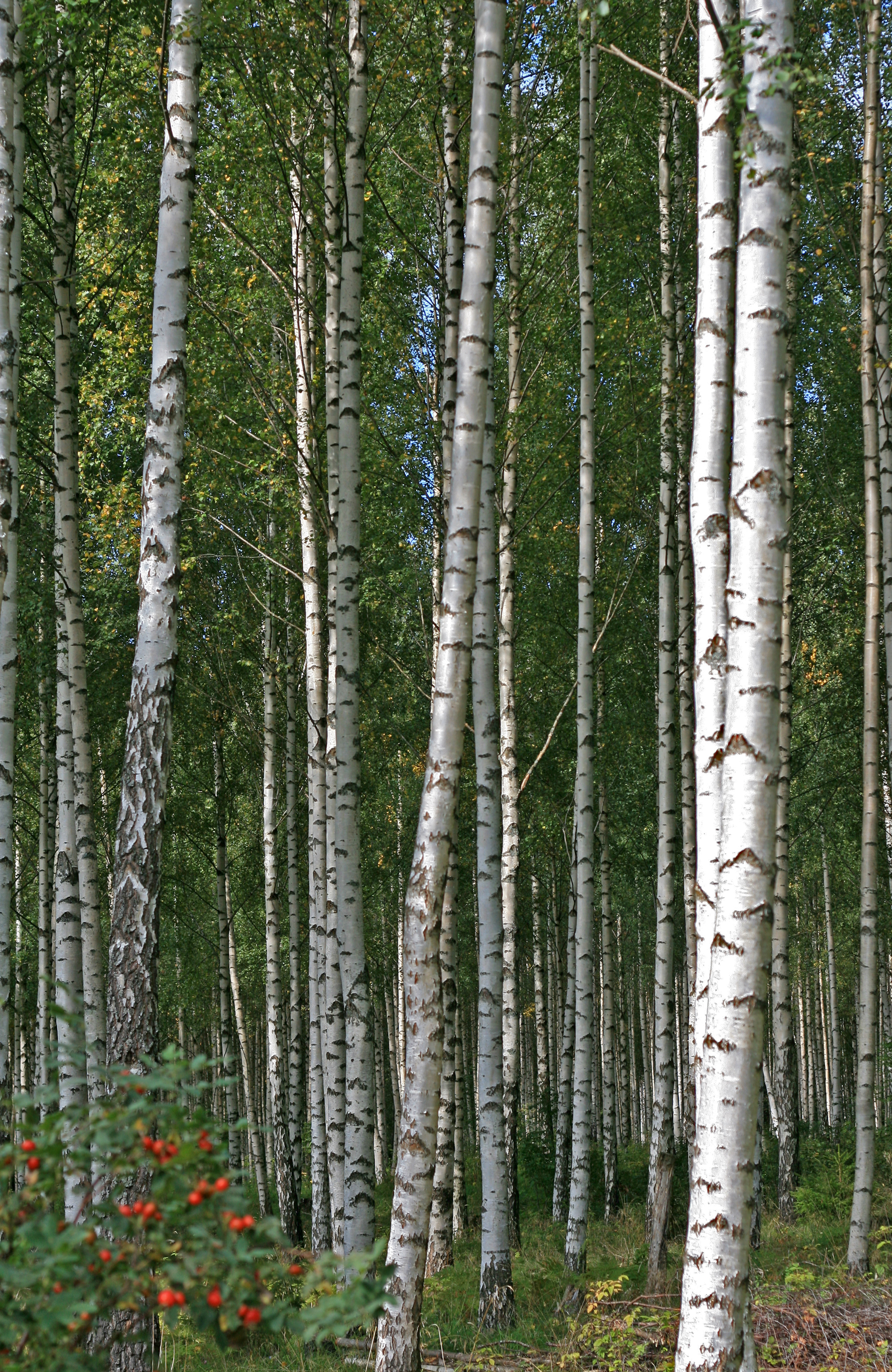 Grove of delimbed birch (Betula pendula) in Ringsaker, Norway.